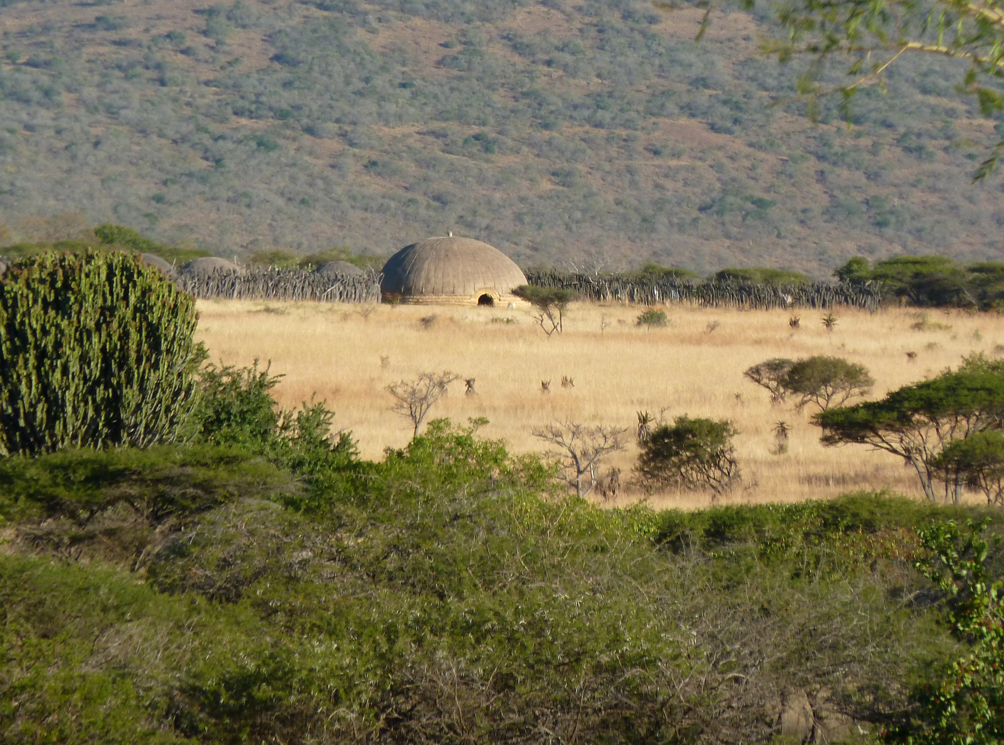 The rebuilt Great audience hut/house (indlu-nkulu), and to its left, Dingane's private hut (ilawu / ilawo), in the black isiGodlo enclosure, at uMgungundlovu, KwaZulu-Natal, as seen from an observation tower, ¾ km to the north. The oval-shaped main kraal (ikhanda) enclosed the whole of the open grassland area, which is larger than this foreshortened view may suggest.